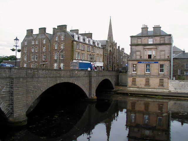 Bridge of Wick Here, Bridge Street Crosses the Wick River, viewed from River Street.